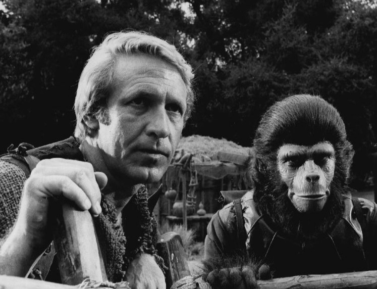 Photo of Ron Harper as Alan Verdon and Roddy McDowall as Galen from the television program Planet of the Apes.